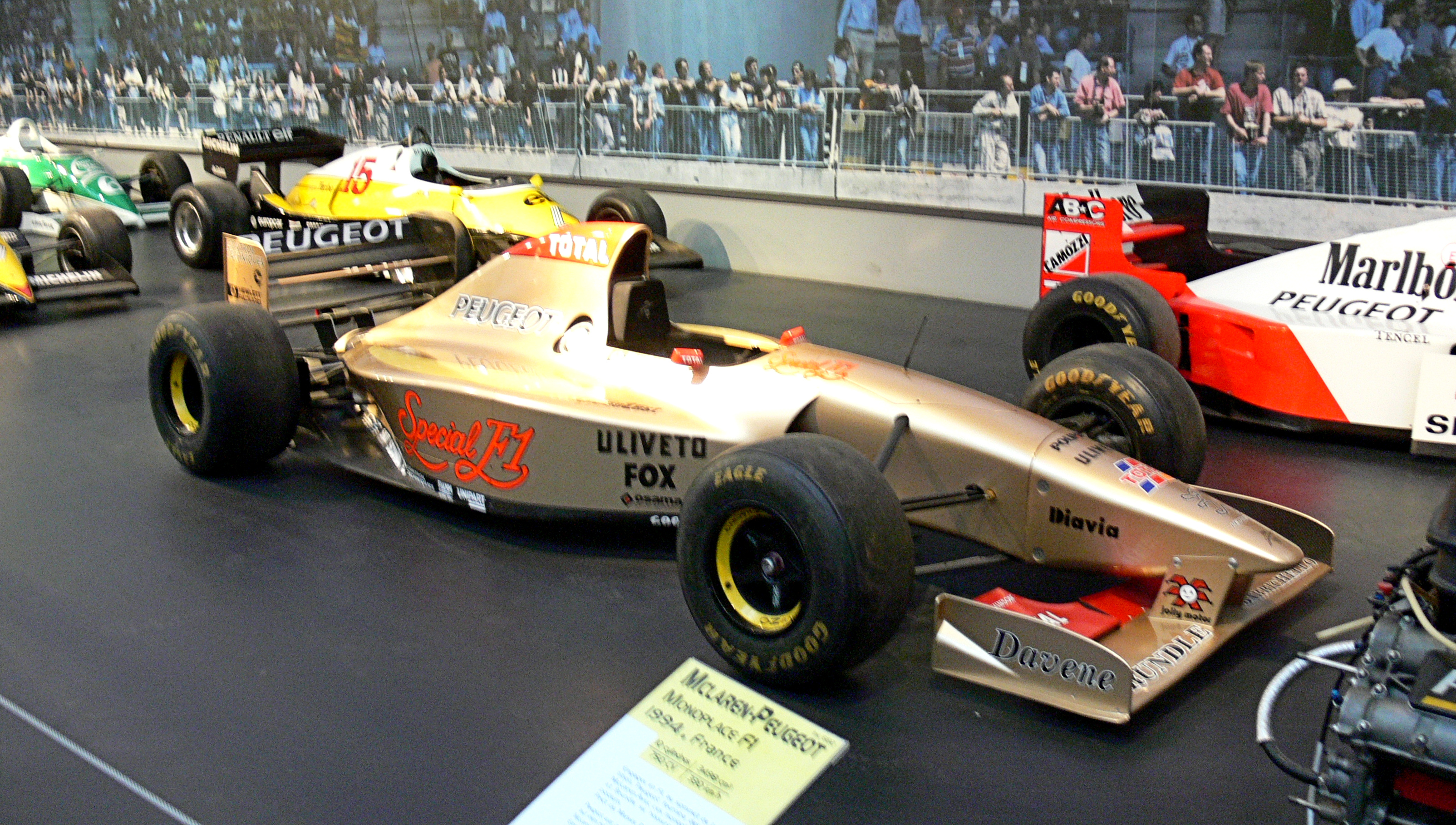 The Jordan 195 chassis with 1996-specification front wing and livery in the Musée National de l'Automobile